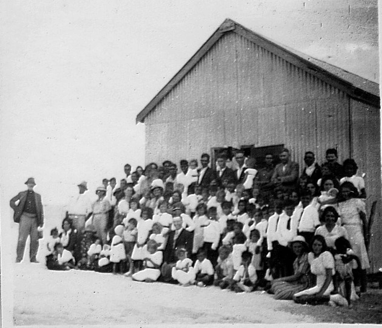 Gnowangerup Mission, the whole camp, Christmas, 1941 State Library of Western Australia